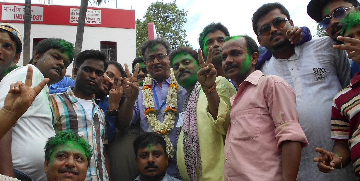 Nanti da celebration his vicory with party supporters